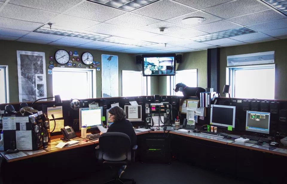 South Pole Comms Office